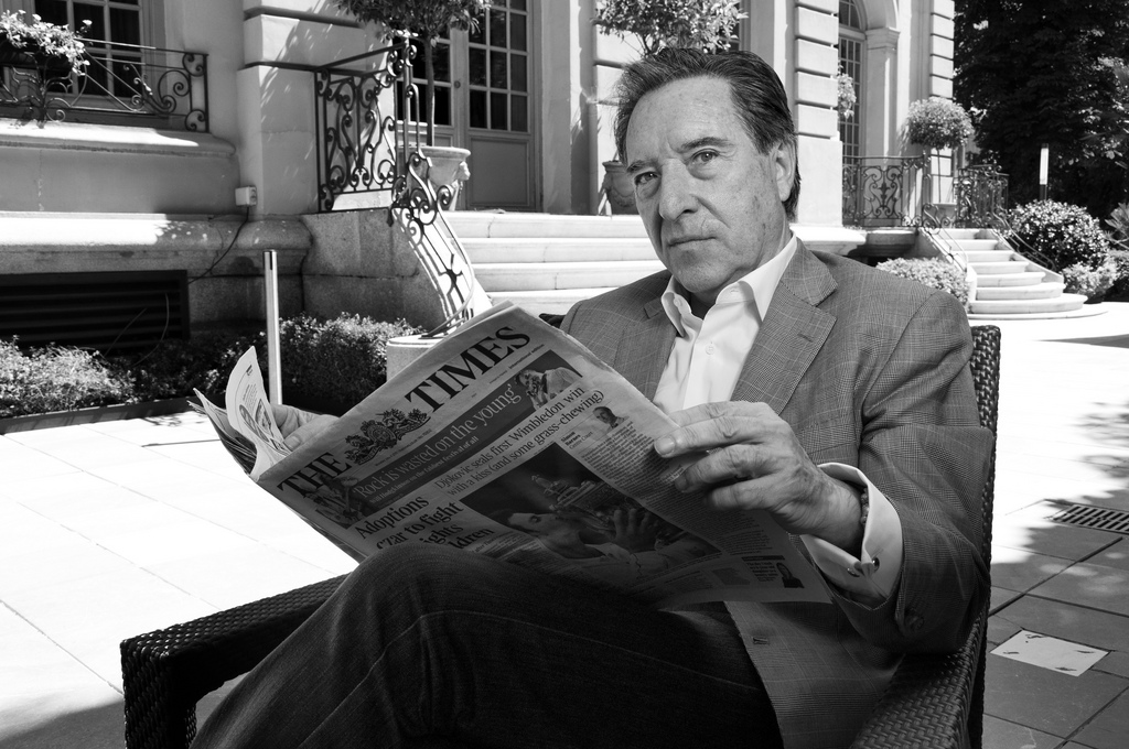 Photo of the Spanish journalista Iñaki Gabilondo for the magazine Jot Down.